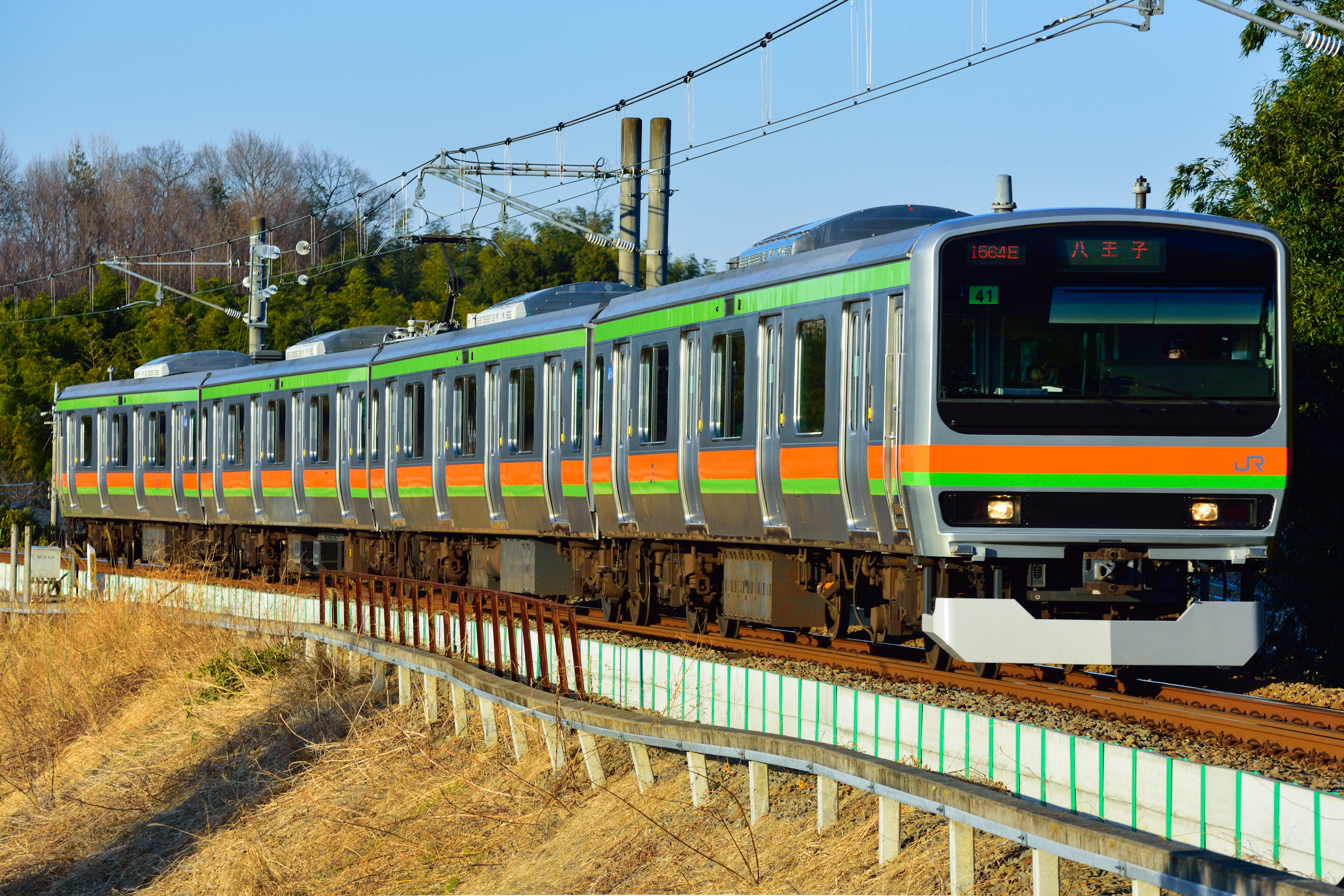 JR East E231-3000 series four-car EMU set 41 between Komiya and Kita-Hachioji stations on the Hachiko Line in Tokyo, Japan